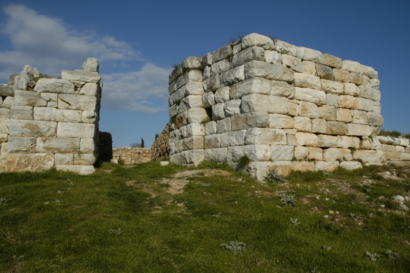 Southern gate of the fortified site.J. M. Harrington, personal digital image